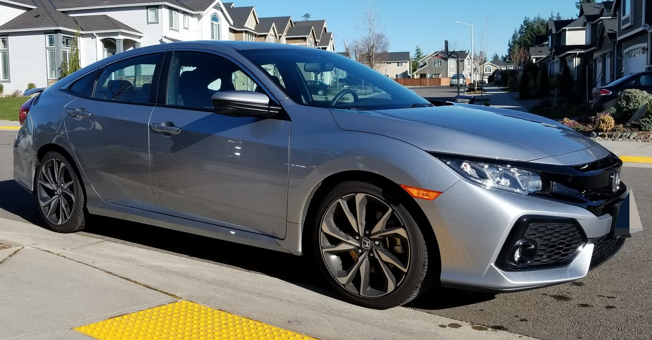 2017 Honda Civic Si Sedan in Lunar Silver - private owner, taken after recently been cleaned. The car is expressly new in this photo, taken in March of 2018.